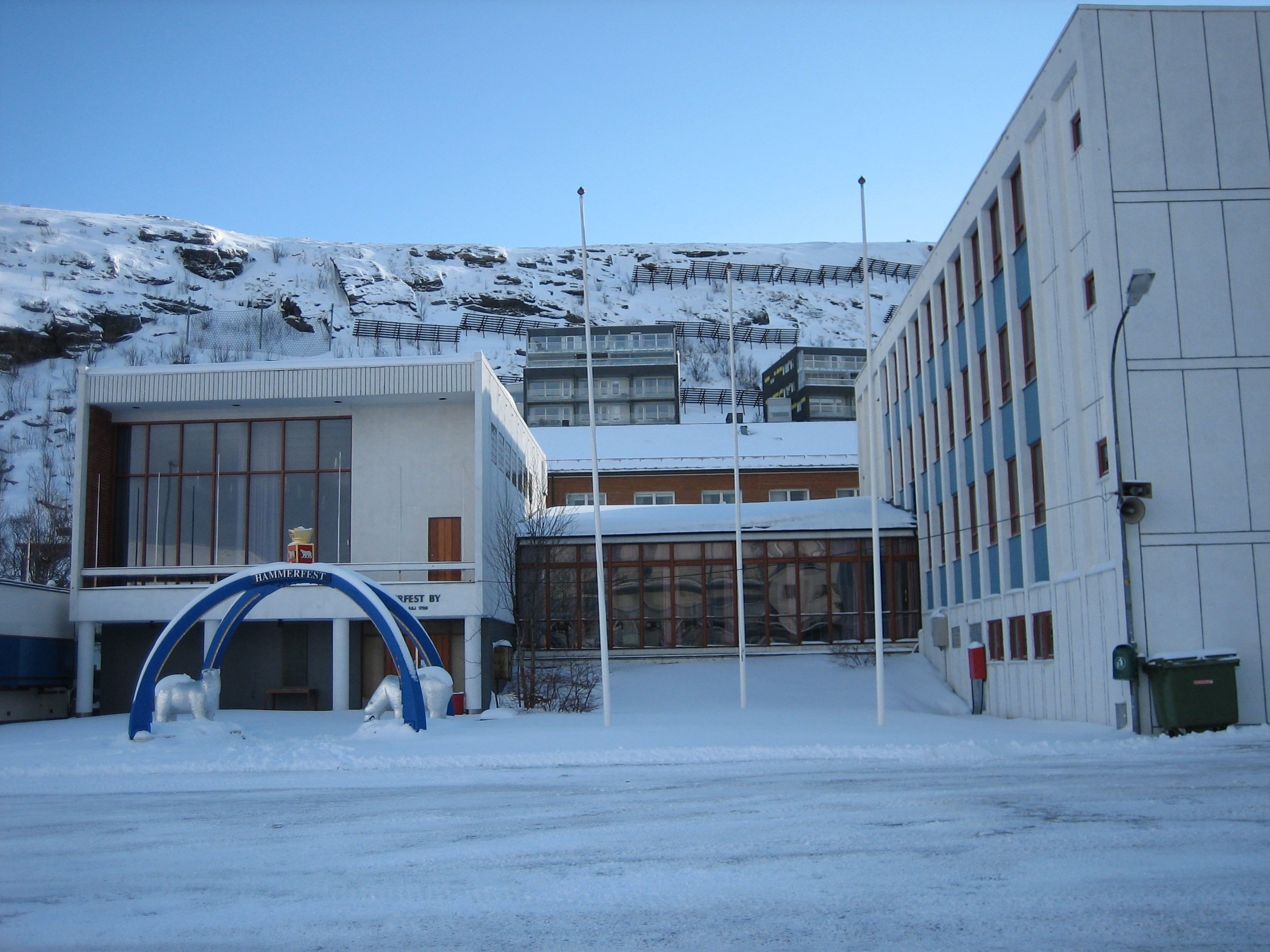 The town hall in Hammerfest, Norway